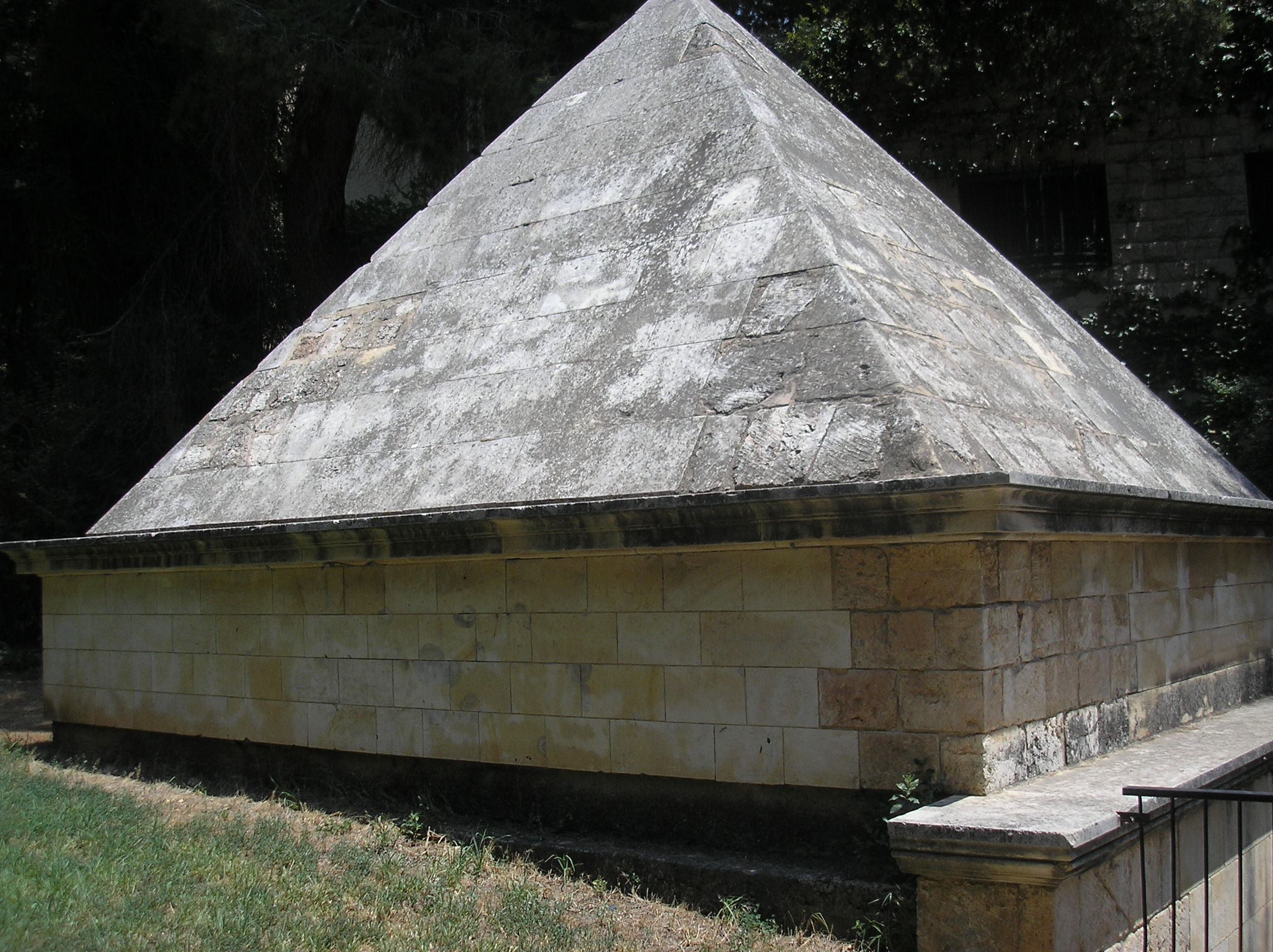 Jason's Tomb, Rehavia, Jerusalem